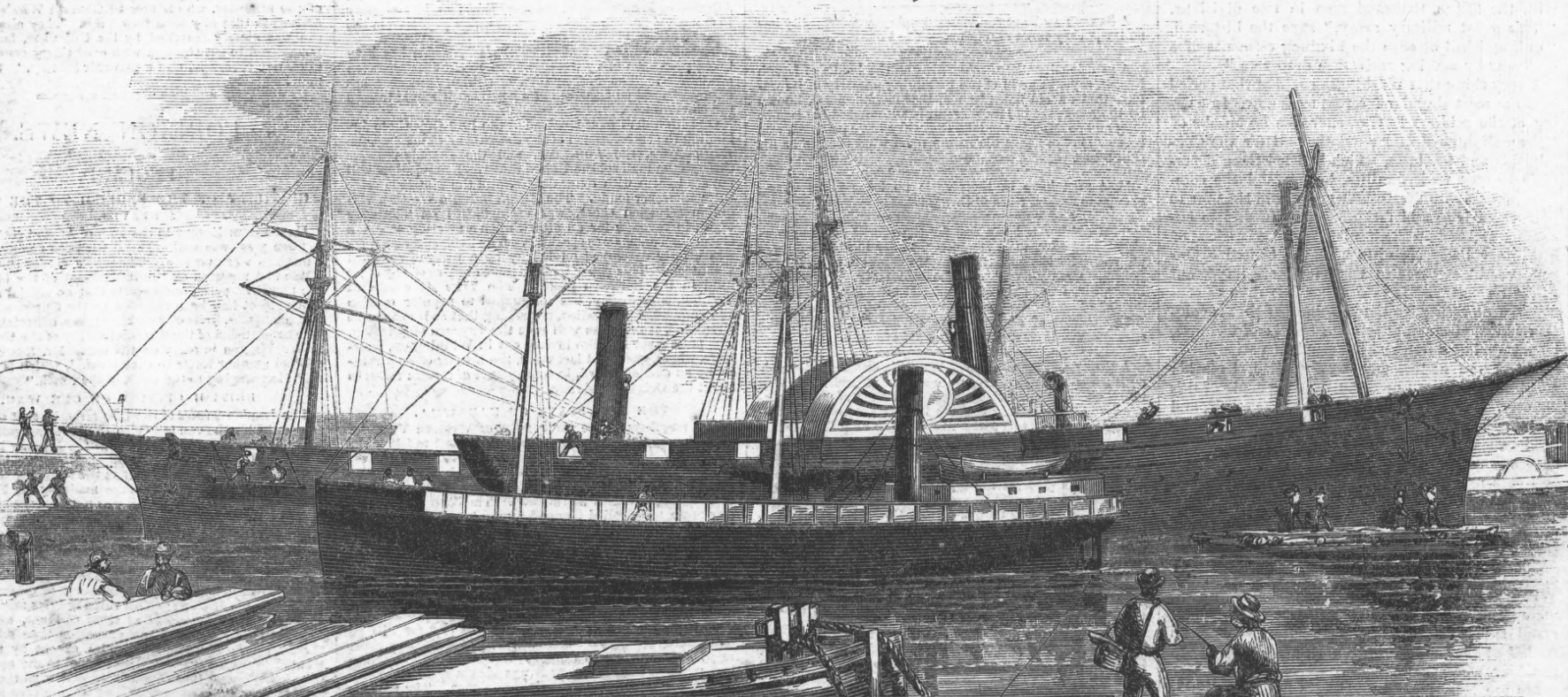 The screw steamer Valley City (foreground) undergoing conversion into a US Navy gunboat in 1861, evidently at the yard of Webb & Bell in Greenpoint, New York. The other ships in the picture are James Adger, Augusta and Florida, all undergoing similar conversion, though which of the three vessels is which is not clear. Valley City was built in Philadelphia, Pennsylvania, in 1859. See also page 571 of the source for more information about this image.